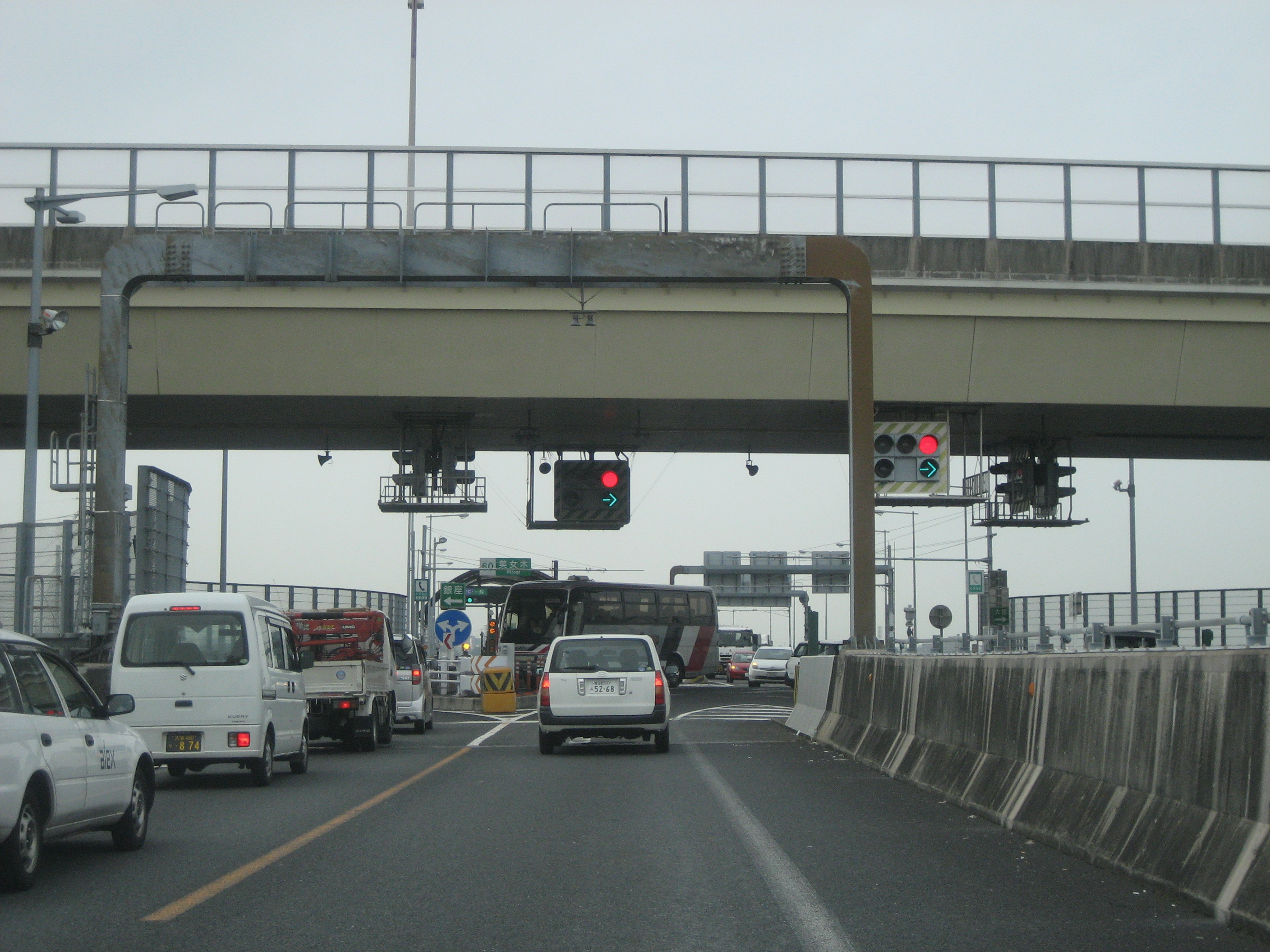 Bijogi Junction on the Tokyo Gaikan Expressway for Oizumi